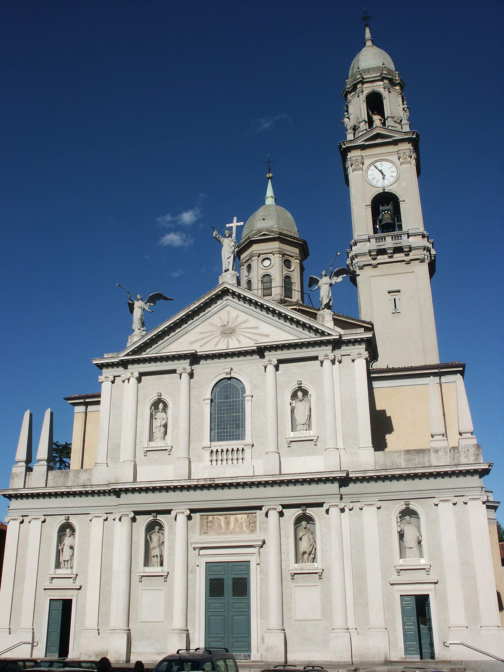 Saint Vito and Modesto church (or Saint Vitus) facade. Architect: Simone Cantoni. - City of Lomazzo, Province of Como, Bassa Comasca, Lombardy Region.